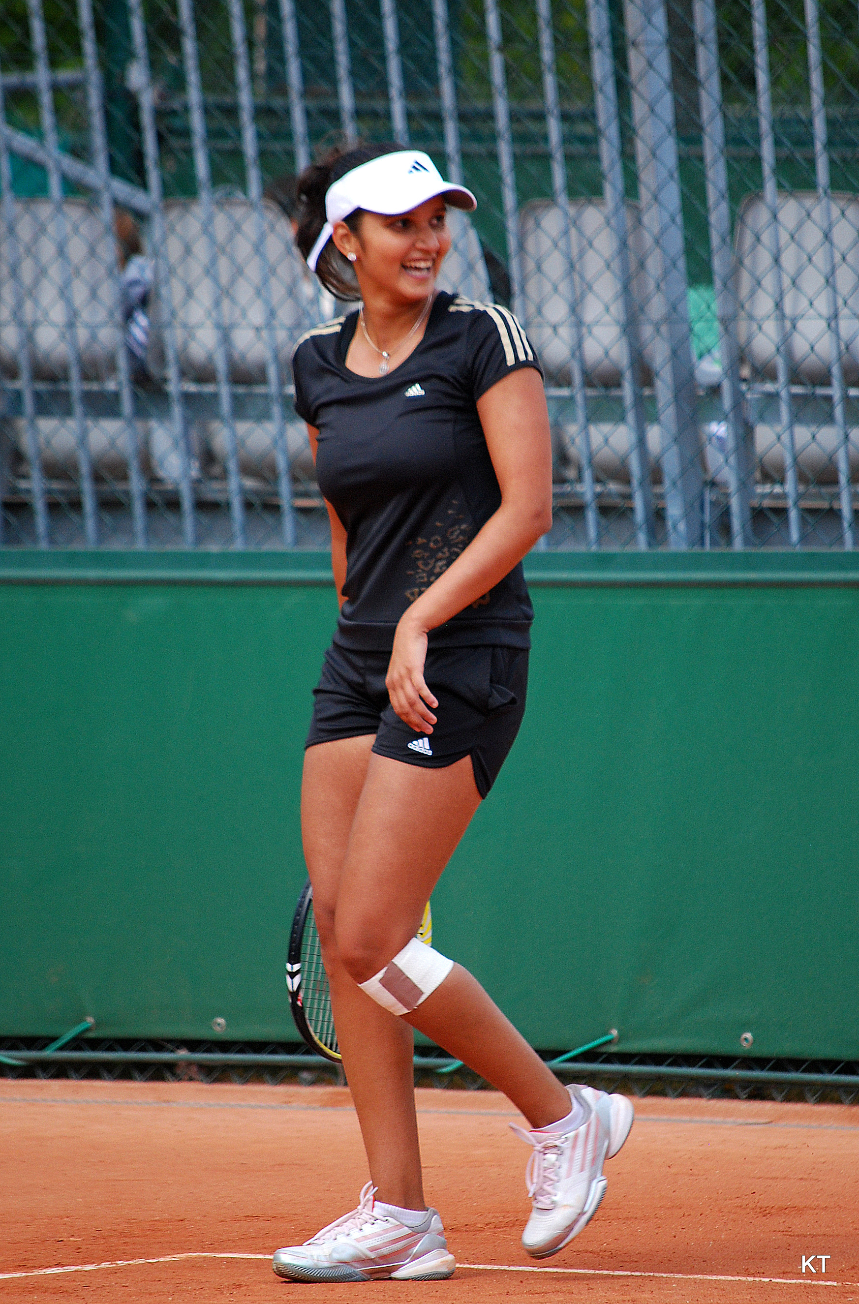 On the practice court. Roland Garros 2011.